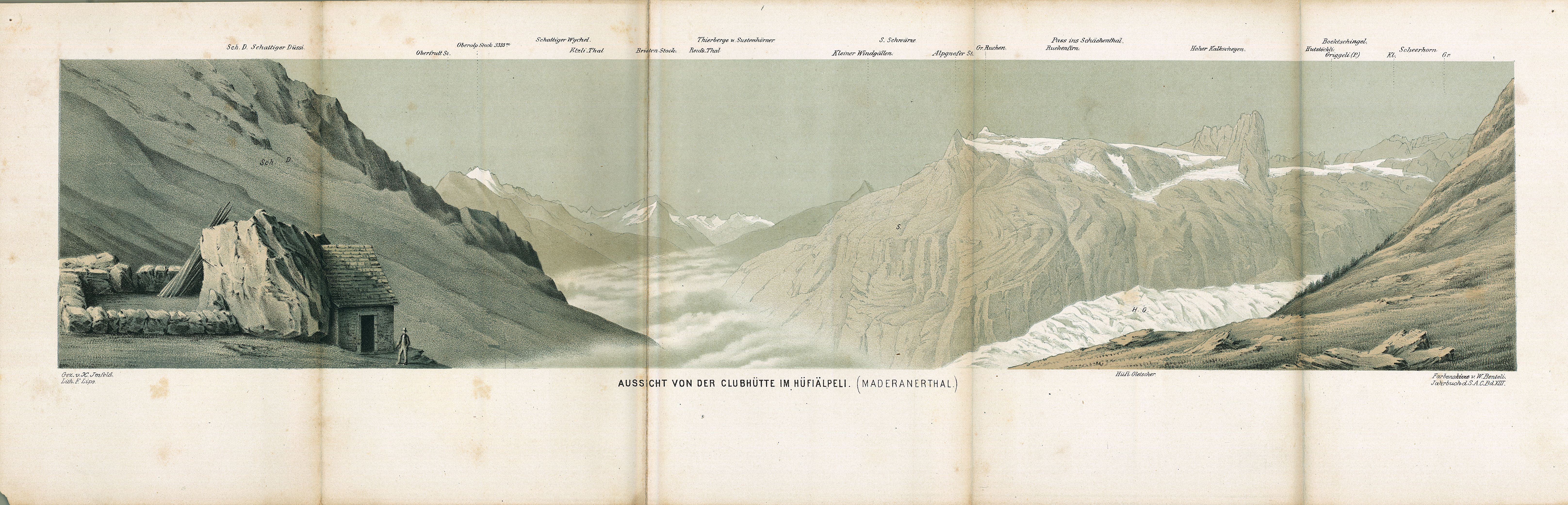 Clubhütte Hüfiälpeli, Maderanertal UR, Schweiz